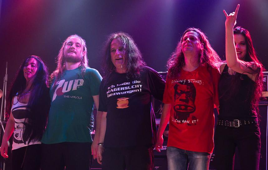 Vicki Vomit & die Misanthropischen Jazz - Schatullen